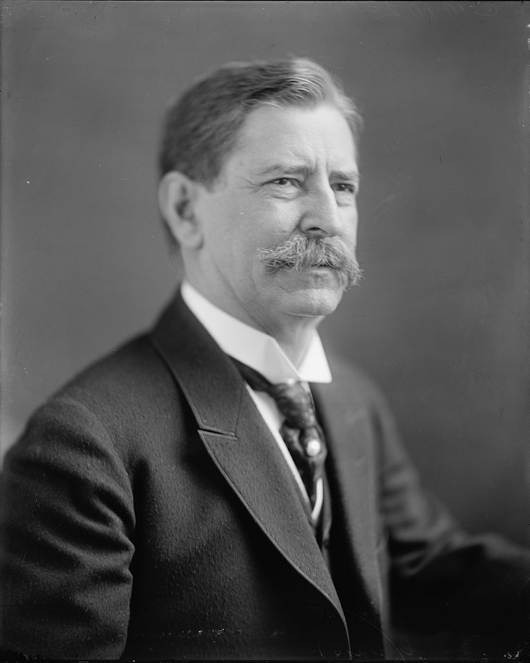 Claude Augustus Swanson (March 31, 1862 – July 7, 1939), American lawyer and politician, while Secretary of the Navy